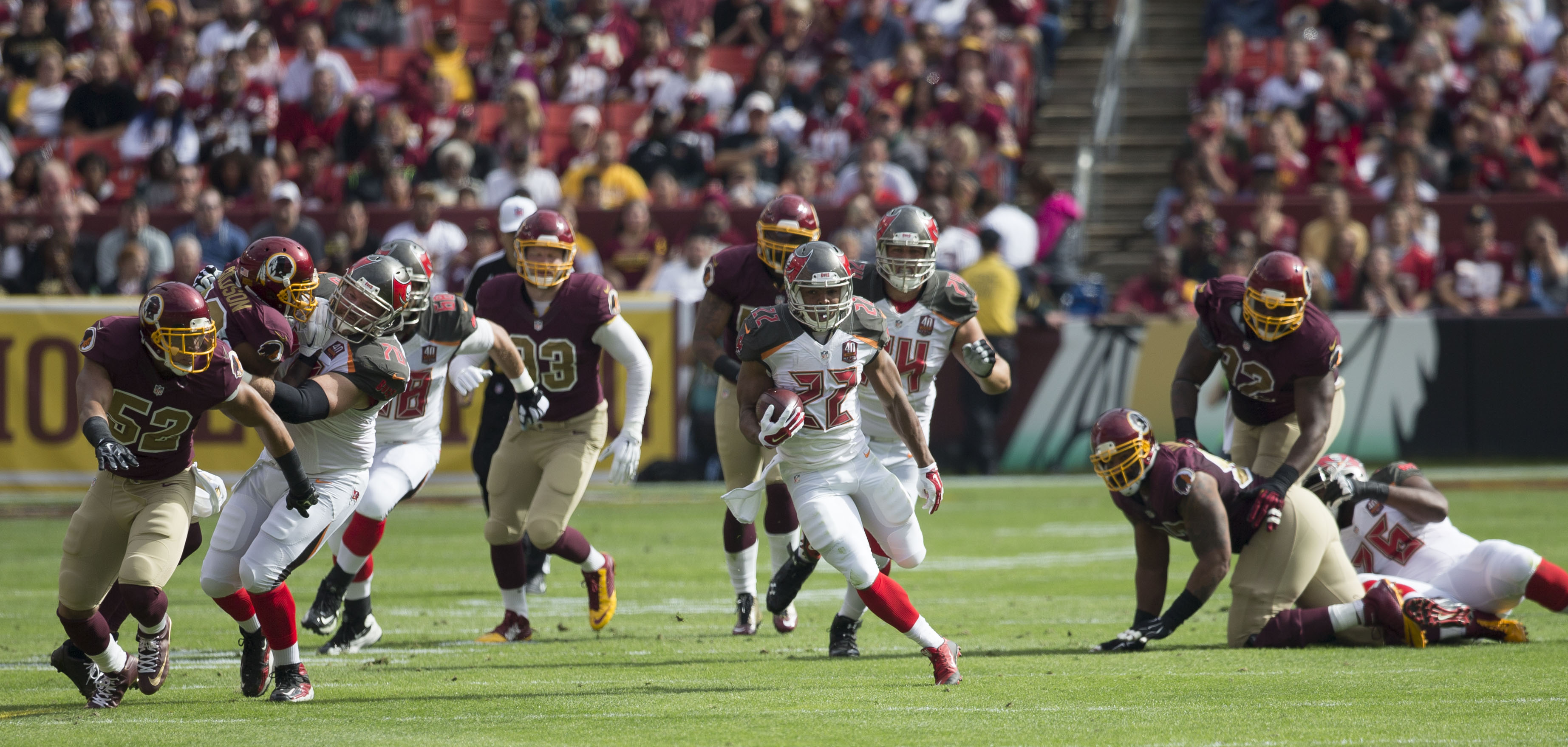 Buccaneers at Redskins 10/25/15